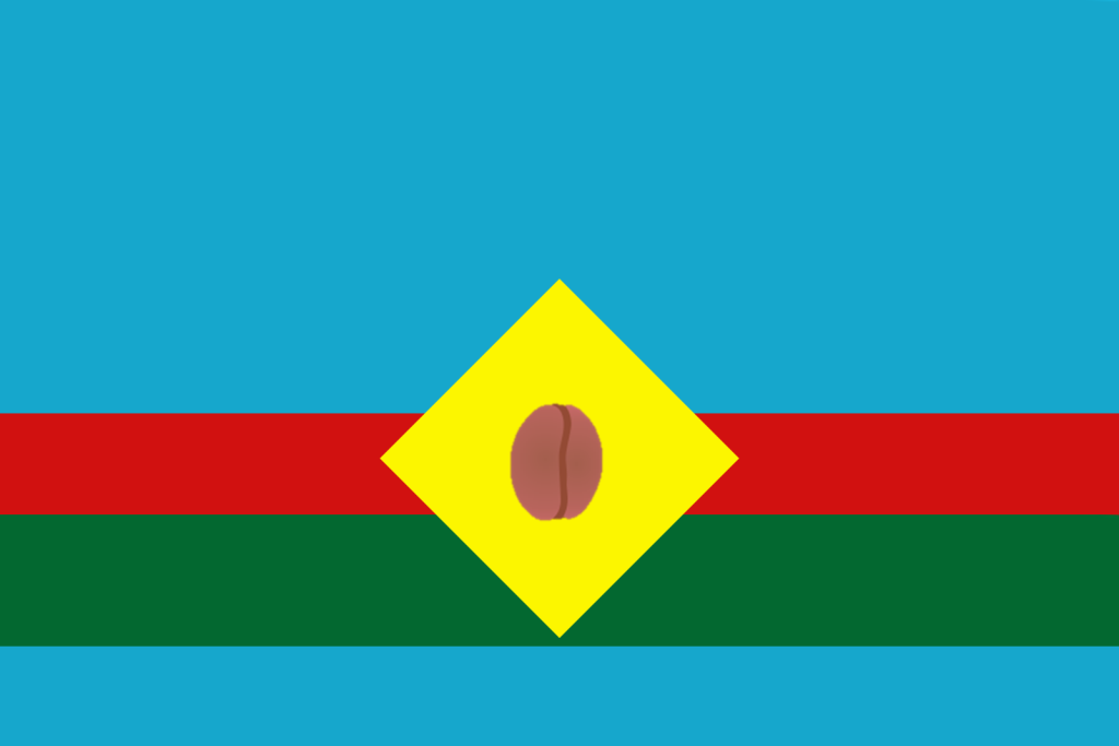 Bandera de Canchaque